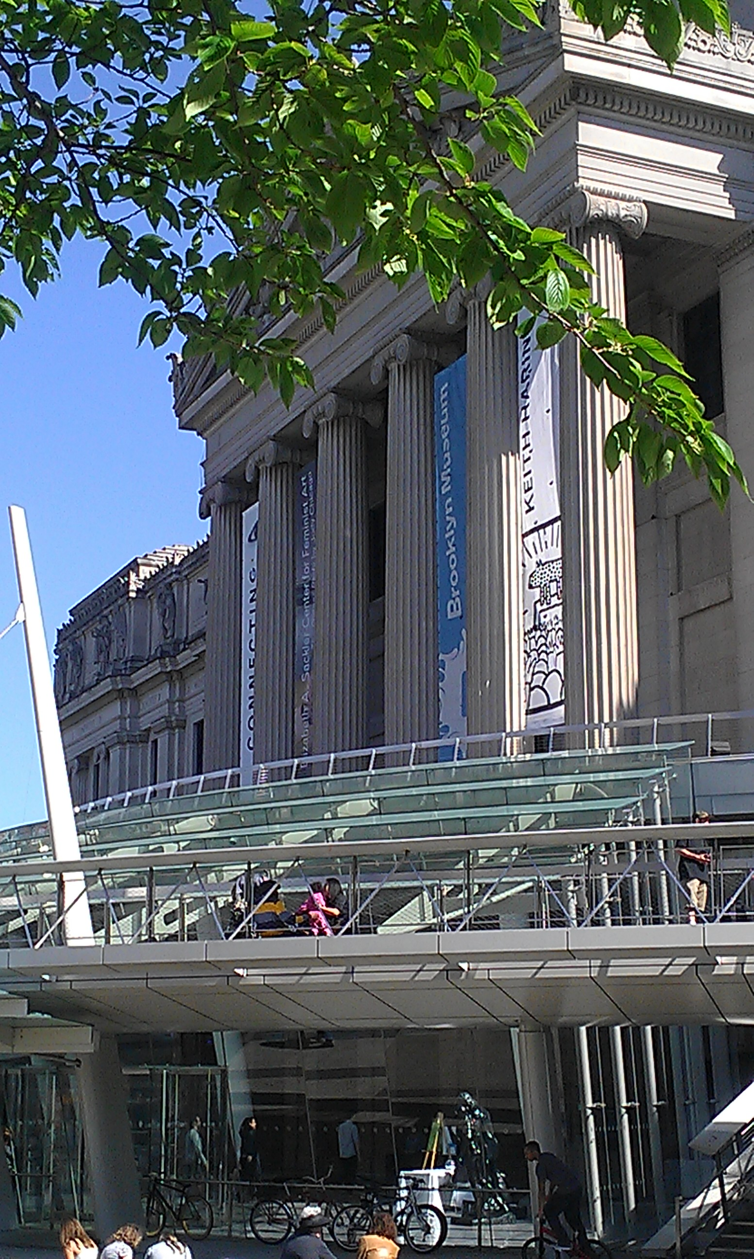 Brooklyn Museum, Edifice